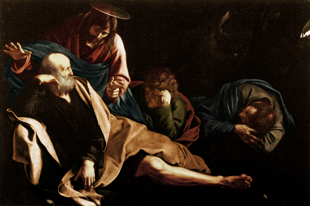 Christ and the Apostles in the Garden